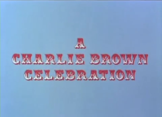 Title Card